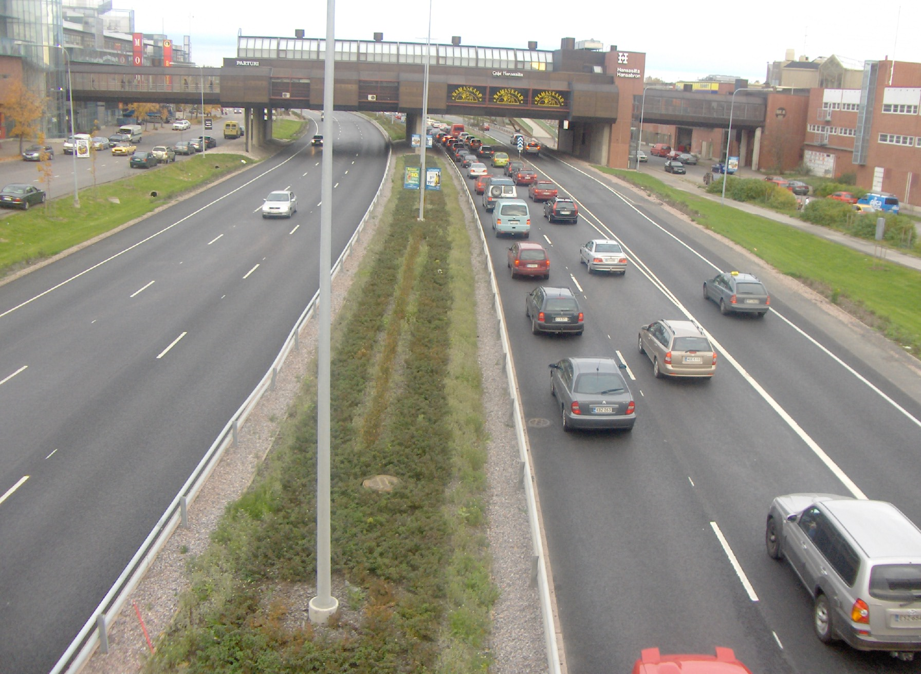 Itäväylä (regional road 170) in Helsinki, Finland